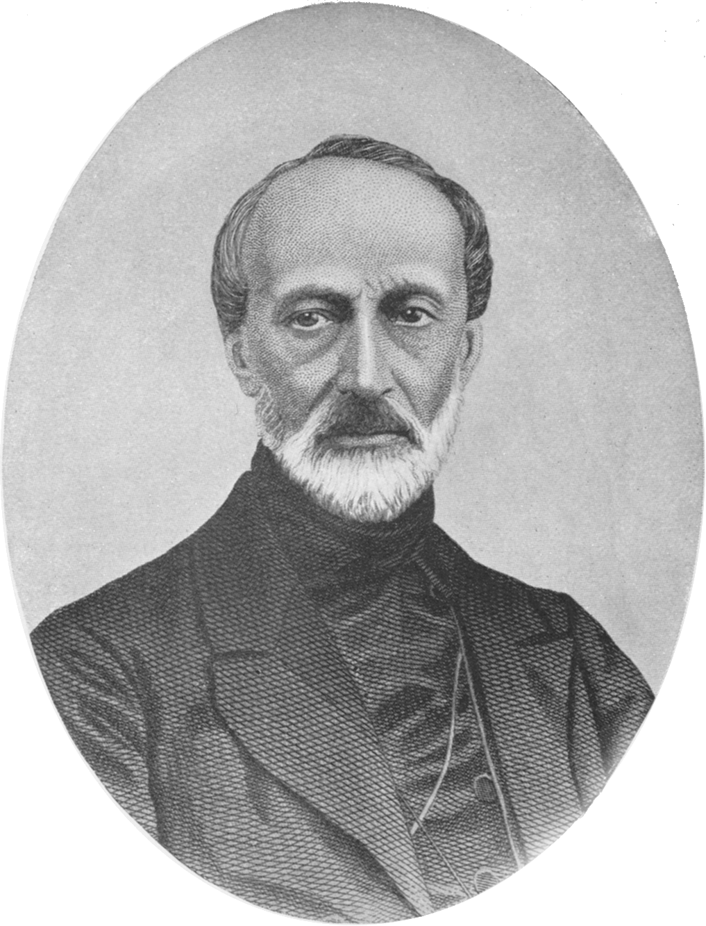 A black and white engraved bust portrait of Giuseppe Mazzini based on a photograph by Domenico Lama